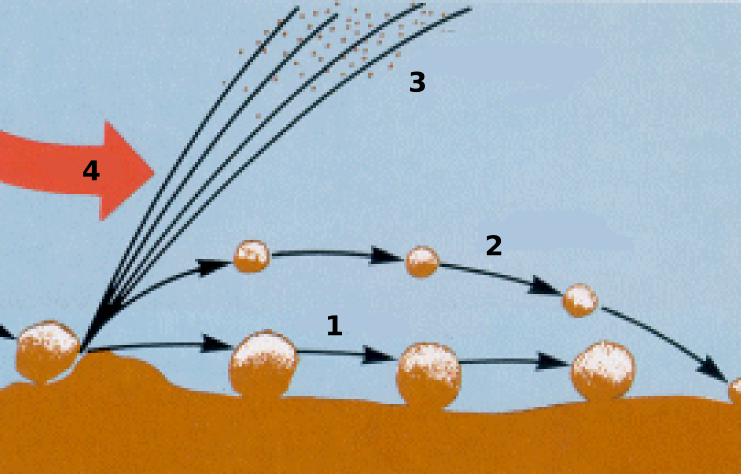 Internationalization of the diagram showing the mechanics of eolian transport. 1=Creep 2=Saltation 3=Suspension 4=Wind current